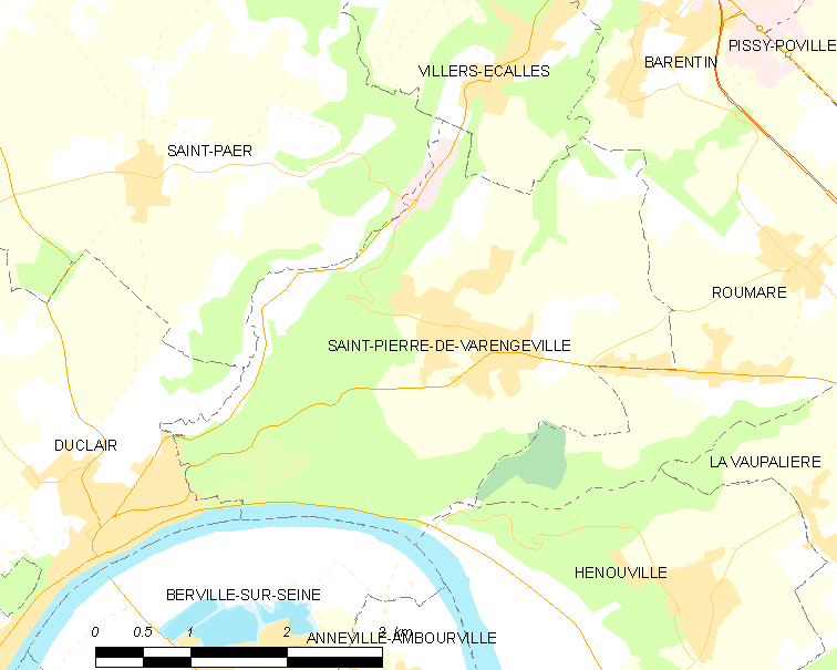 Map of French municipality Saint-Pierre-de-Varengeville